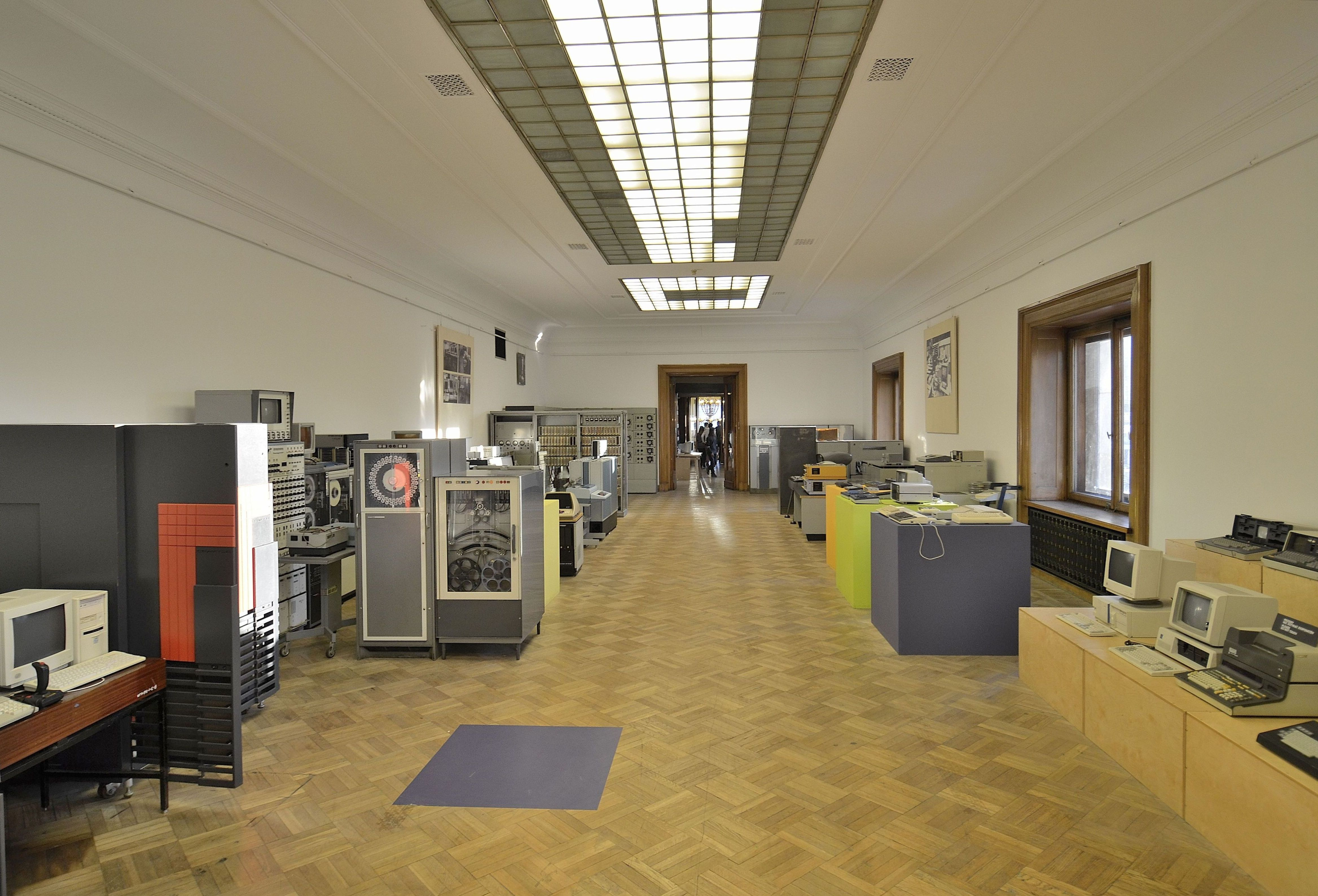 Muzeum of Technology in Warsaw